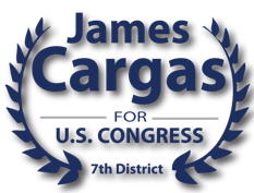 The James Cargas for Congress 2012 campaign logo.